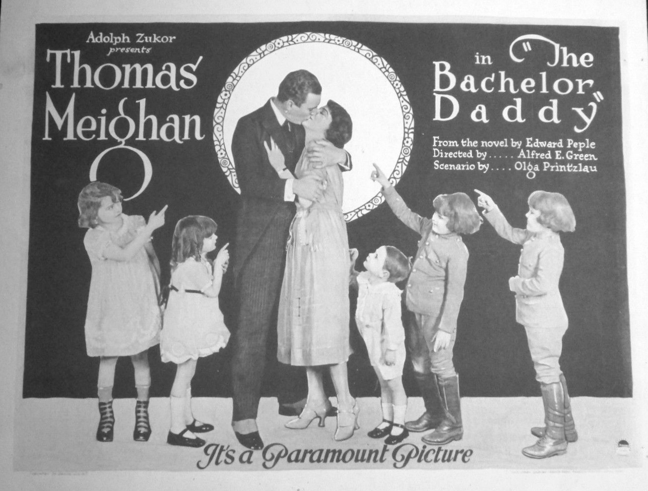 Lobby card for the 1922 film The Bachelor Daddy with Peaches Jackson, Barbara Maier (1917 – 2007), Thomas Meighan, Leatrice Joy, Bruce Guerin, and the twins Charles De Briac and Raymond De Briac.